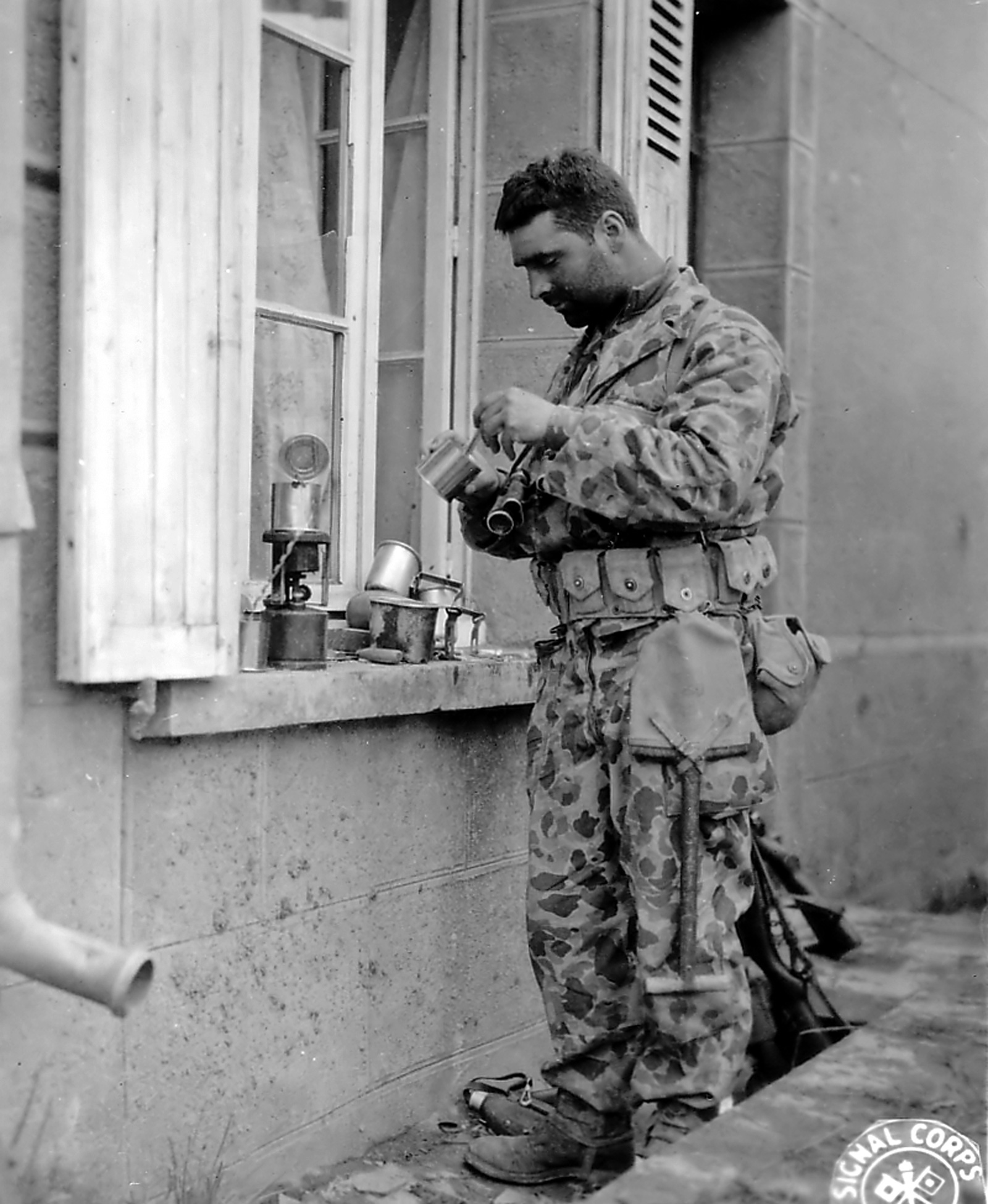 Private Joseph De Freitos of Yonkers (New York) of the 41st Armored Infantry Regiment, 2nd US Armored Division, heats his rations on a stove. Interestingly he is wearing a two piece herringbone twill (HBT) camouflage which was used by marines in the pacific, but was quickly abandoned in the European theater because of the similarity to the uniform of the SS.